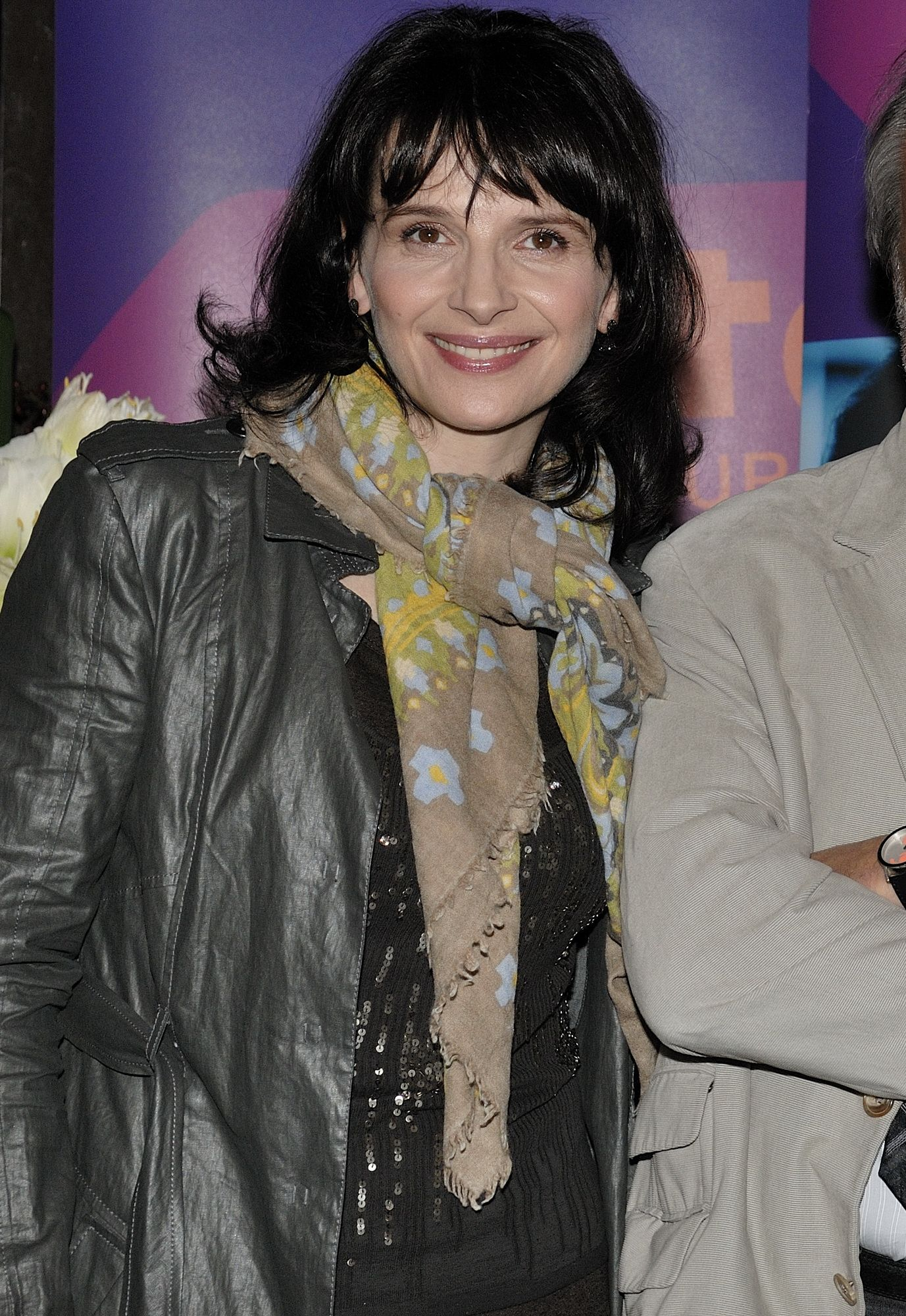 Juliette Binoche (French actress) pose prior to the screening of their movie 'Juliette Binoche dans les Yeux' held at the Elysee Biarritz movie theatre in Paris, France on October 22, 2009. Photo by Nicolas Genin/ABACAPRESS.COM